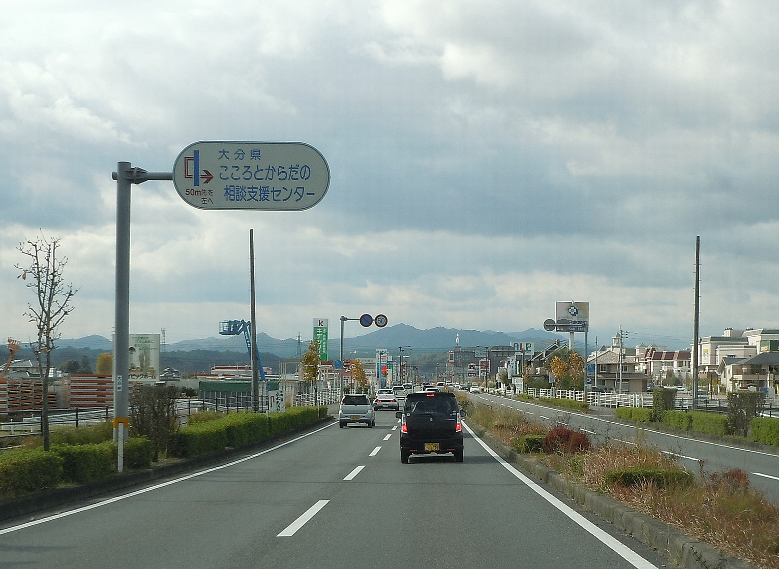 National Route 210 Kinoue Bypass, is also known as "White Road" (Wasada Area, Oita City, Oita, Japan)